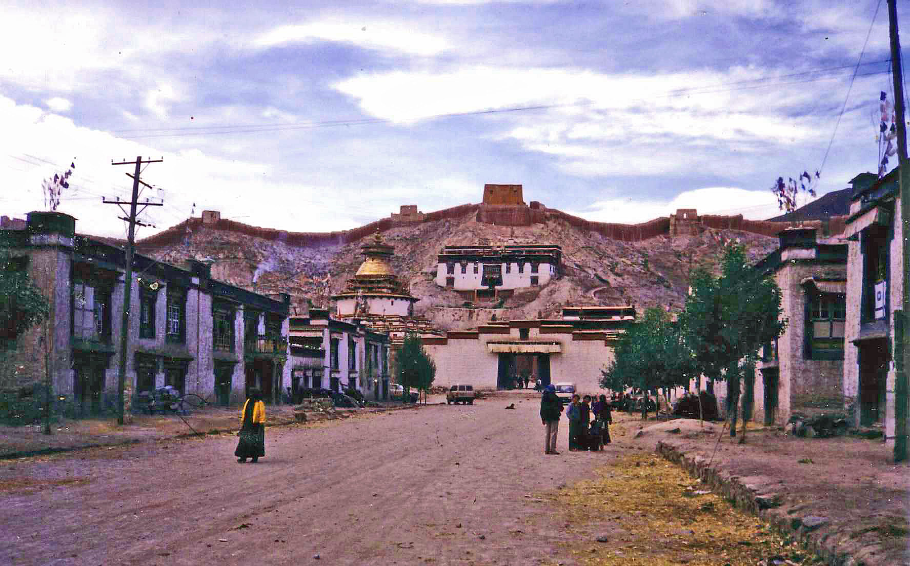 I took this photo myself in 1993